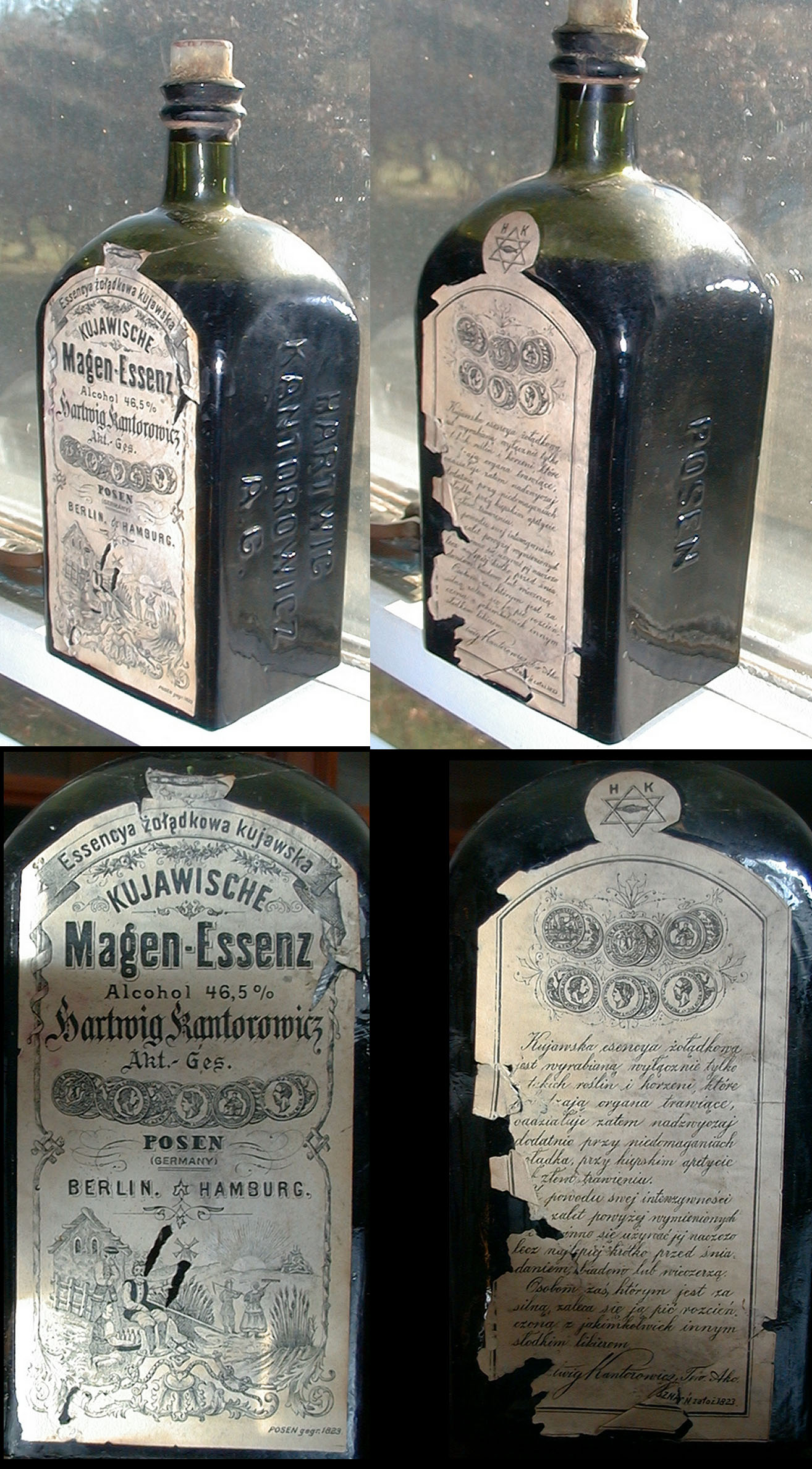 An old bottle of bitters from Germany. It was purchased for 1240 US-$ in 1998.